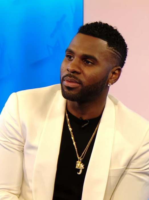 Jason Derulo in 2018